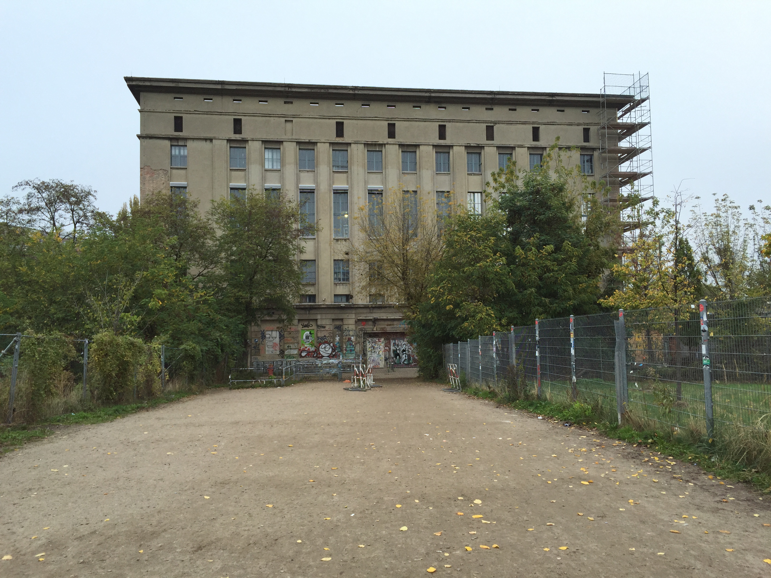 This pictures shows the Berghain, a club in Berlin.